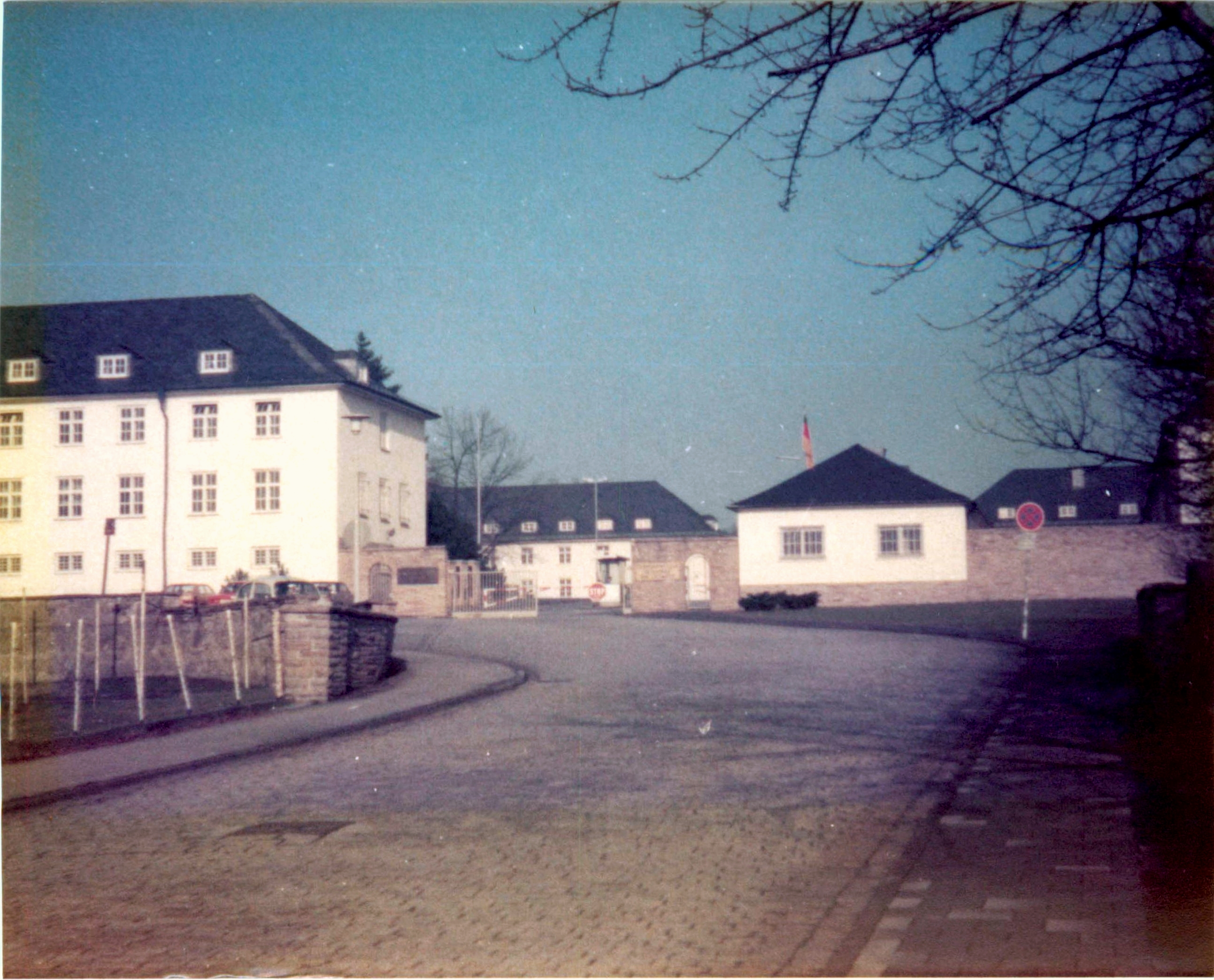 Bernhard-Hülsmann-Kaserne - College of the German Air Force, Iserlohn 1977